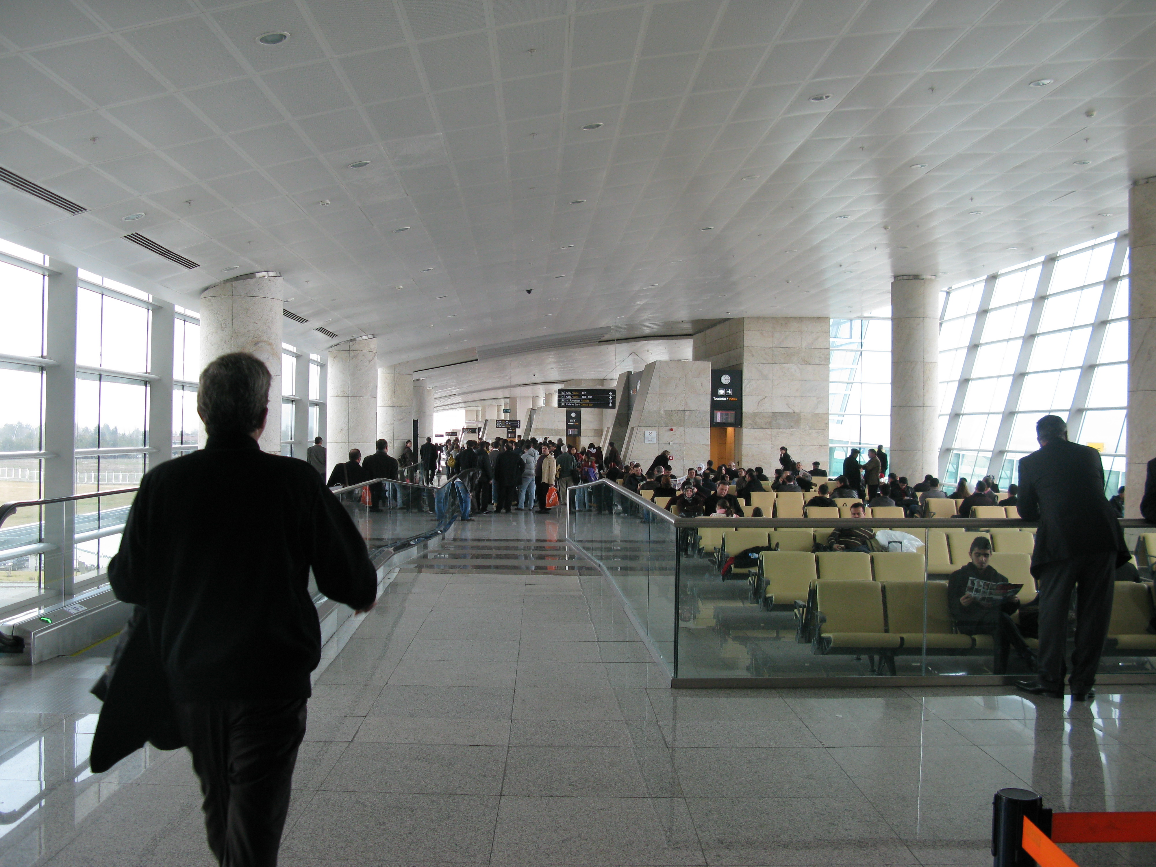 Gates at the domestic flights part of the terminal at Esenboğa Havalimanı, Ankara, Turkey